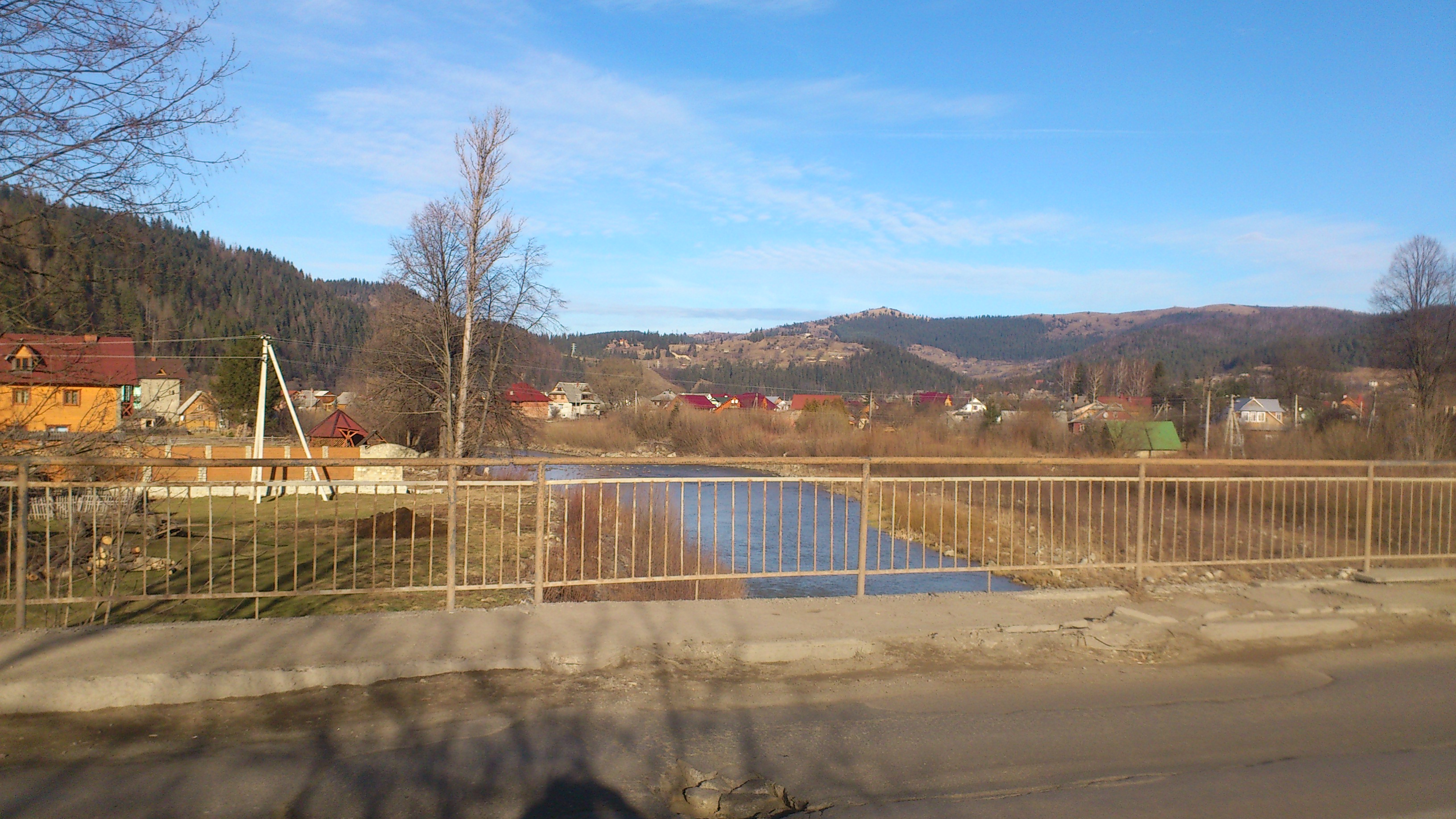 Prut River in Mykulychyn